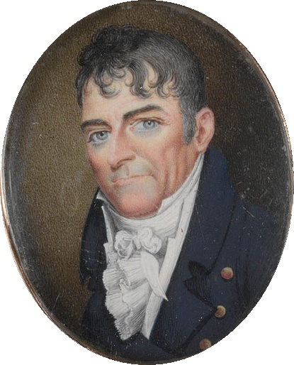 Captain Eber Bunker, ca. 1810 - miniature portrait State Library of NSW, Call No. MIN 58